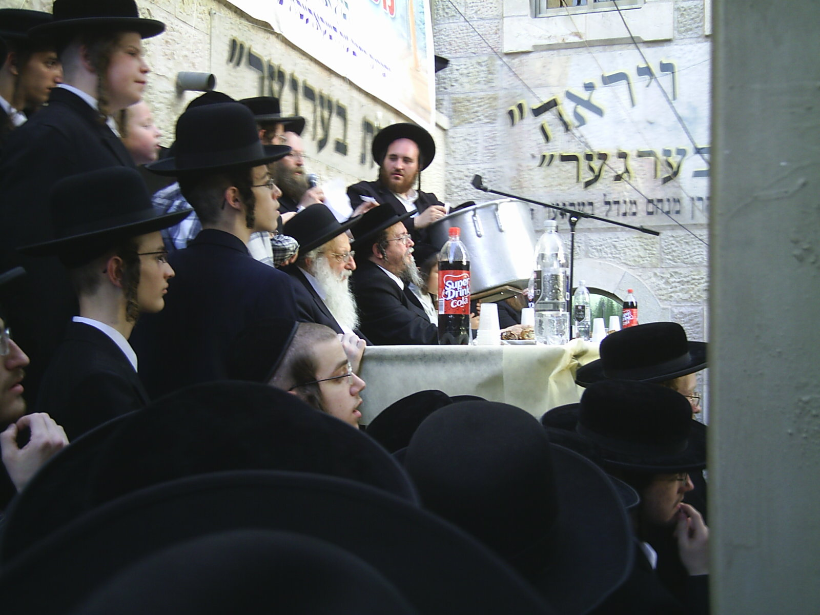 Rebbe of Toldos Avrohom Yitzchok Tay at a meeting with schoolchildren in Meah Shearim, Jerusalem. Self-made. June 2006.